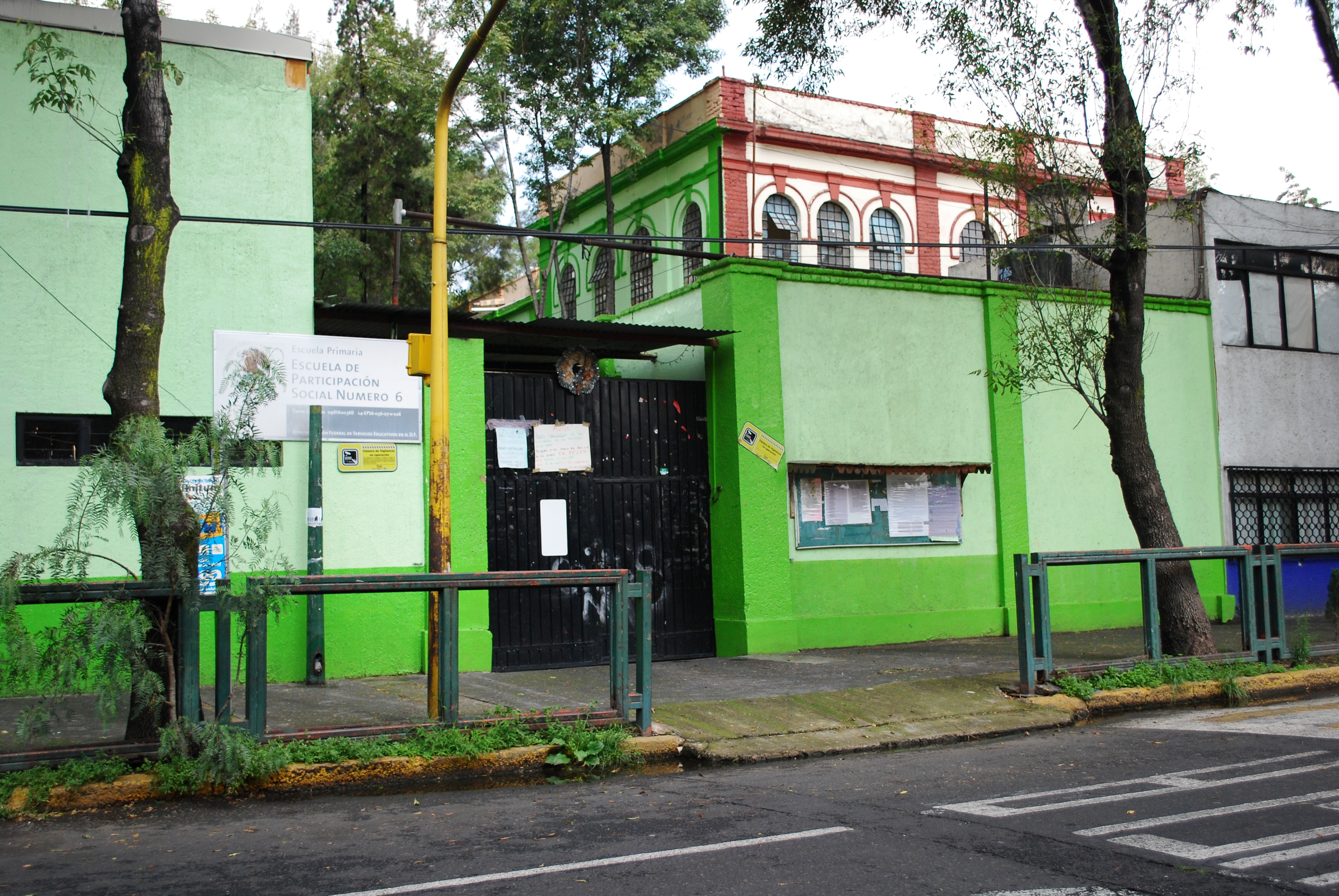 Escuela de Participacion Social Numero 6 in Colonia Asuturias in Mexico City